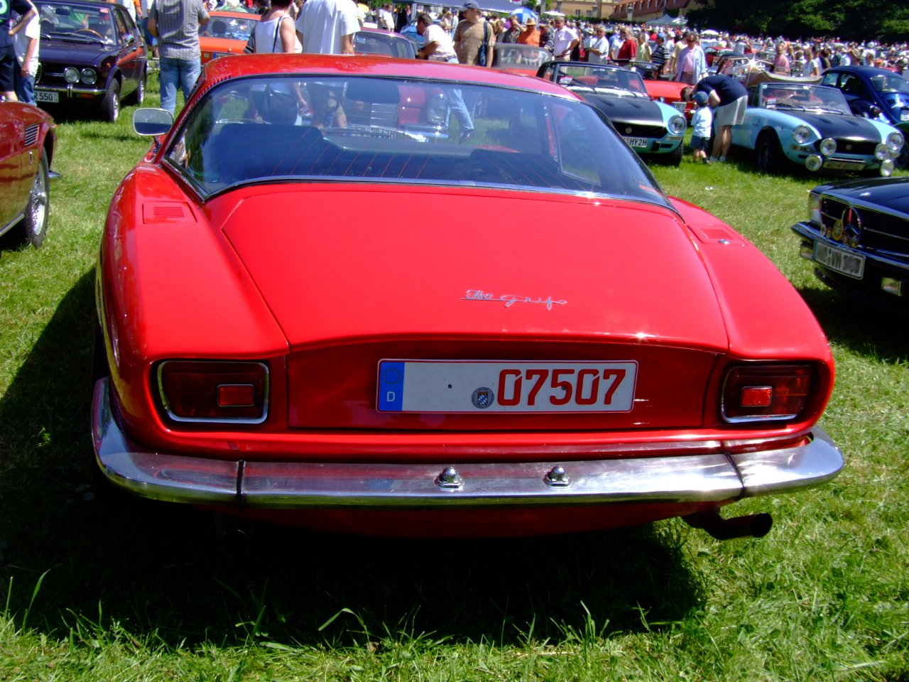 Iso Grifo A3 L